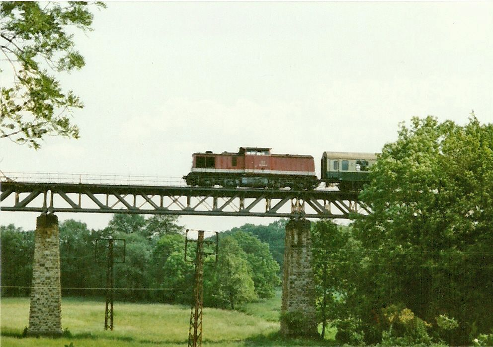 The afternoon train from Pörsten to Leipzig at the Rippach valley viaduct in May 1998. This railway line has been closed a few days later and dismantled in 2005.